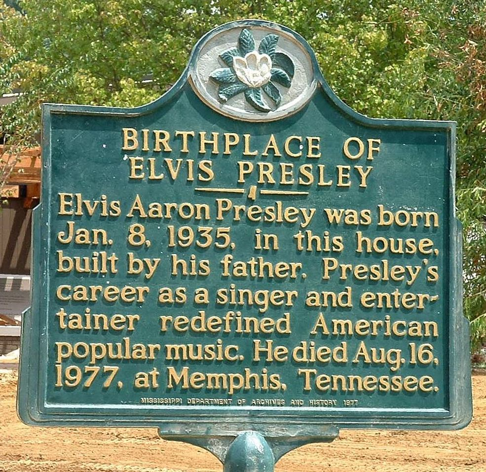 marker for Elvis Presley birthplace, Tupelo, Mississippi